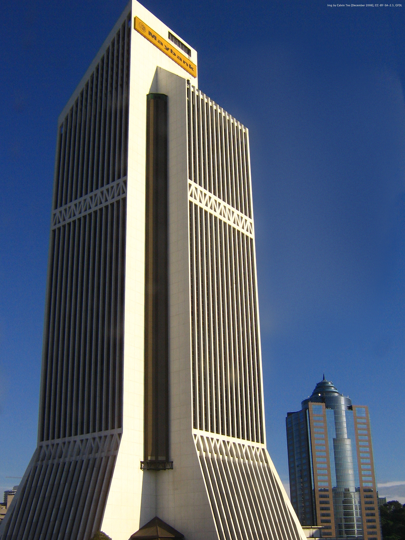 Maybank Tower in downtown Kuala Lumpur, Malaysia